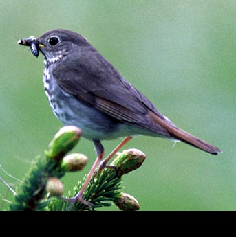 Hermit Thrush public domain from USFWS